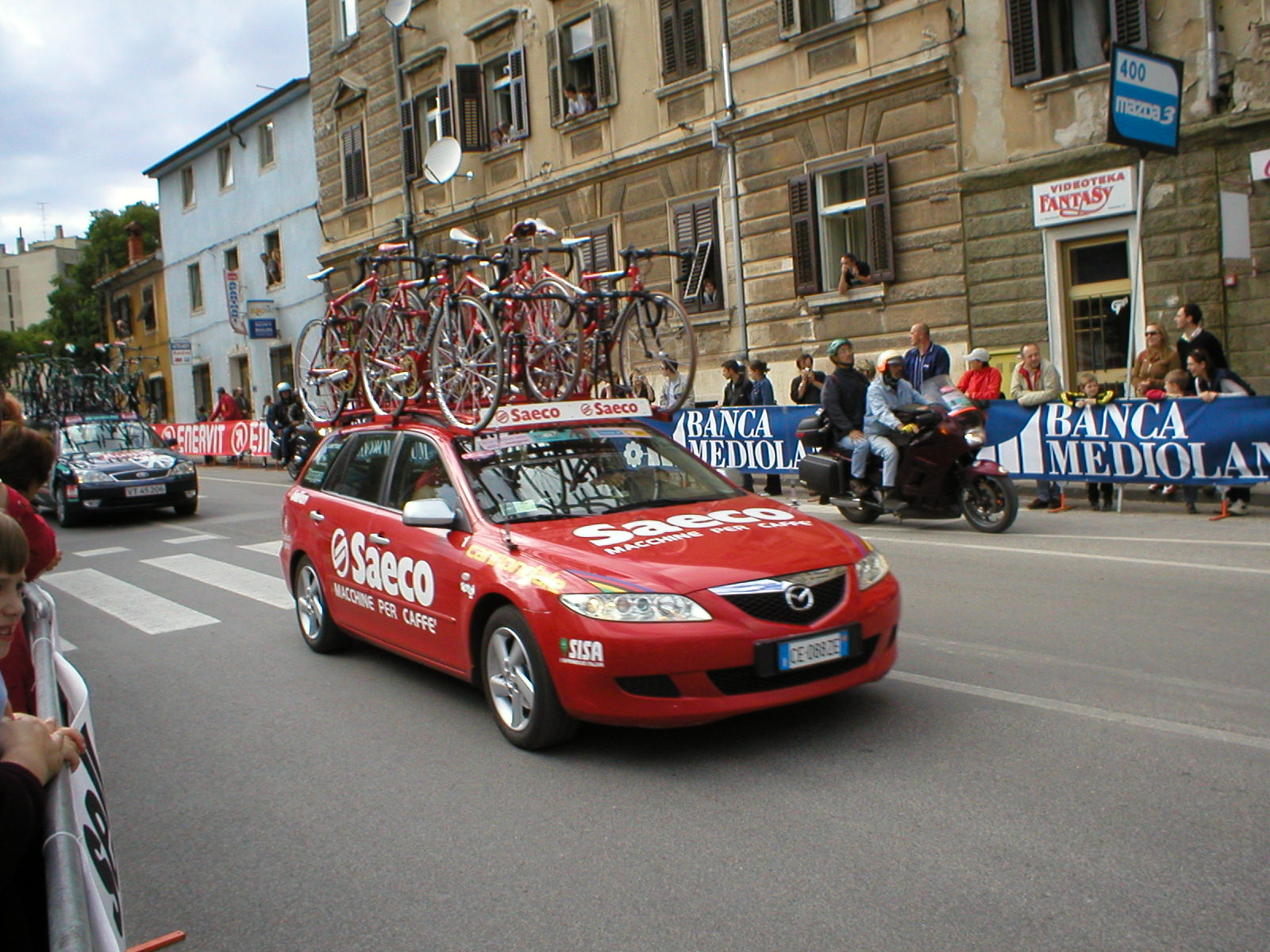 The 87th Giro d'Italia in Pula, Croatia